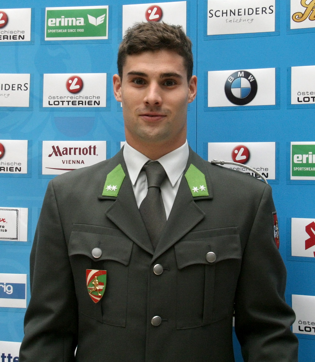 Artistic gymnast Fabian Leimlehner at the hand-out of the Austrian teams official attire for the 2012 Summer Olympics in London (Marriott, Vienna).